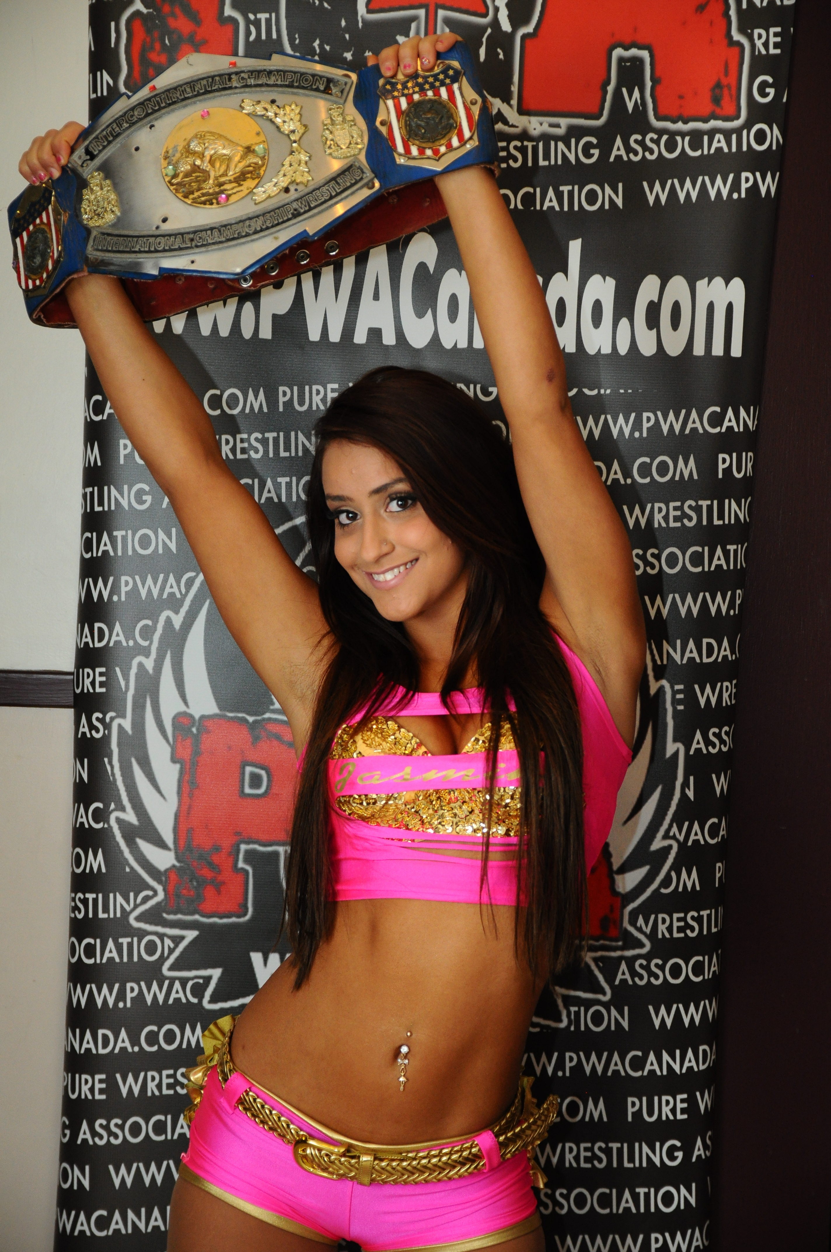 Jasmin Areebi holding aloft the PWA Women's Championship